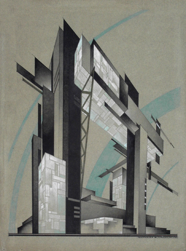 Constructivist Study by Nicholas B. Vassilieve (c.1931)